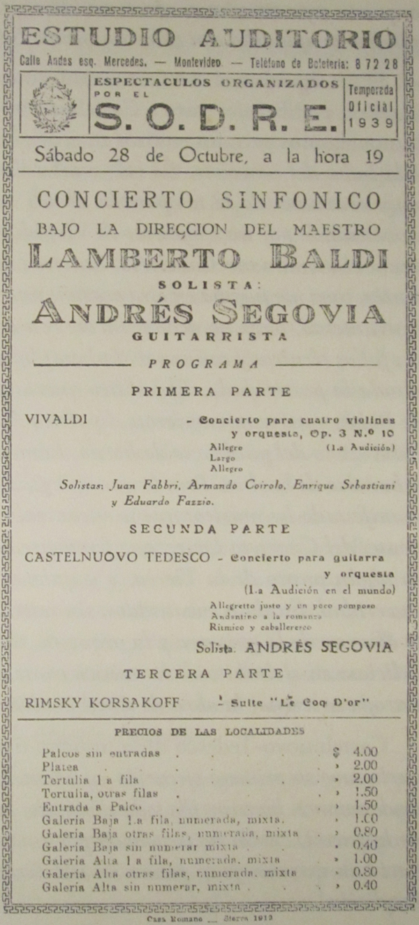 Poster of the First world public execution of Castelnuovo-Tedesco's Concerto per chitarra e orchestra n.1, in Montevideo in 1939, october 28th.